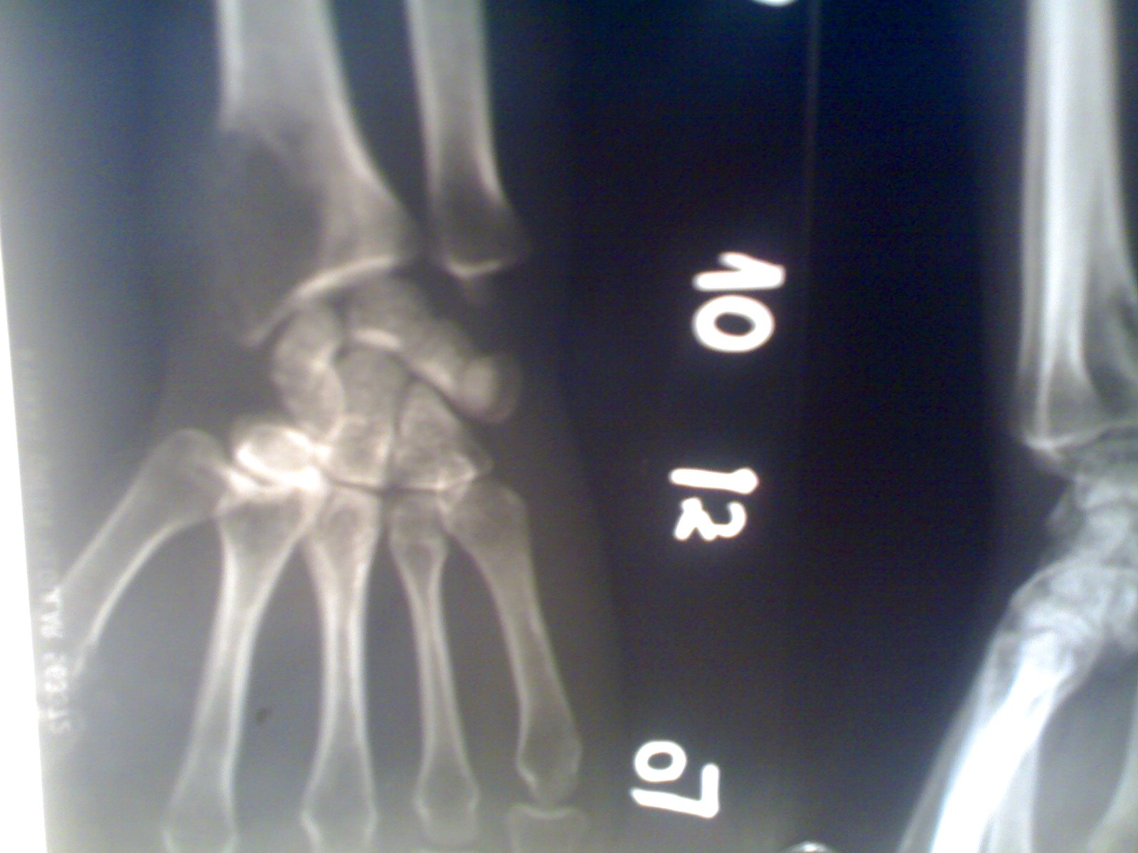 Osteolytic lesion of tumor of the lower end of the radius.